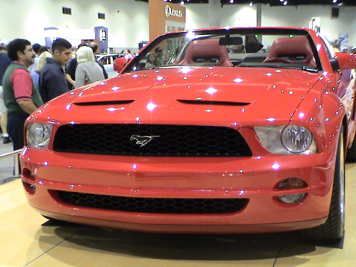 A front, exterior view of the 2005 Ford Mustang Convertible concept taken at the San Diego International Auto Show